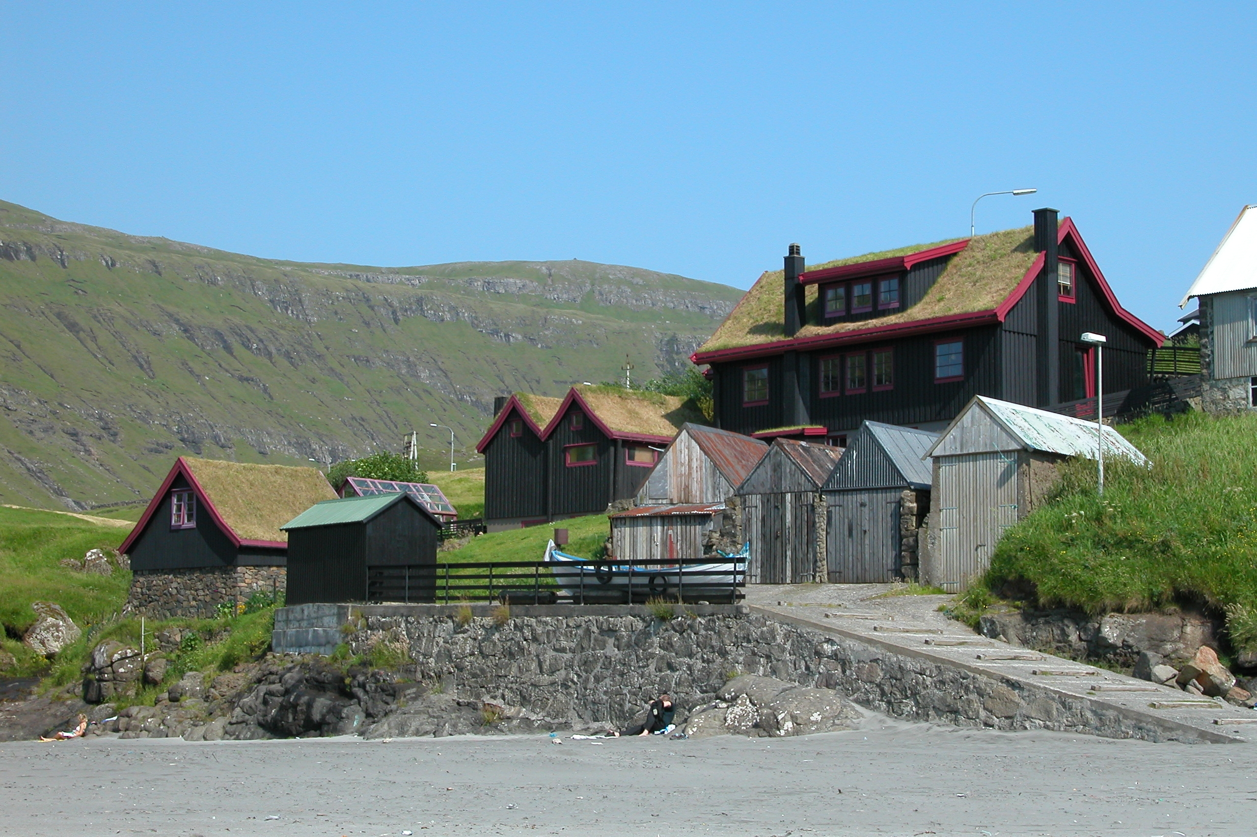 Leynar on Streymoy, Faroe Islands